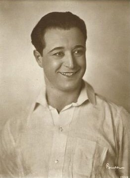 Portrait of Italian actor Angelo Ferrari (1897–1945) by Alexander Binder.